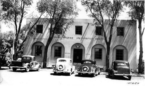 1938—The Federal Building and U.S. Forest Service offices in Springerville, Arizona. Photo by F. L. Jackson FS #365114